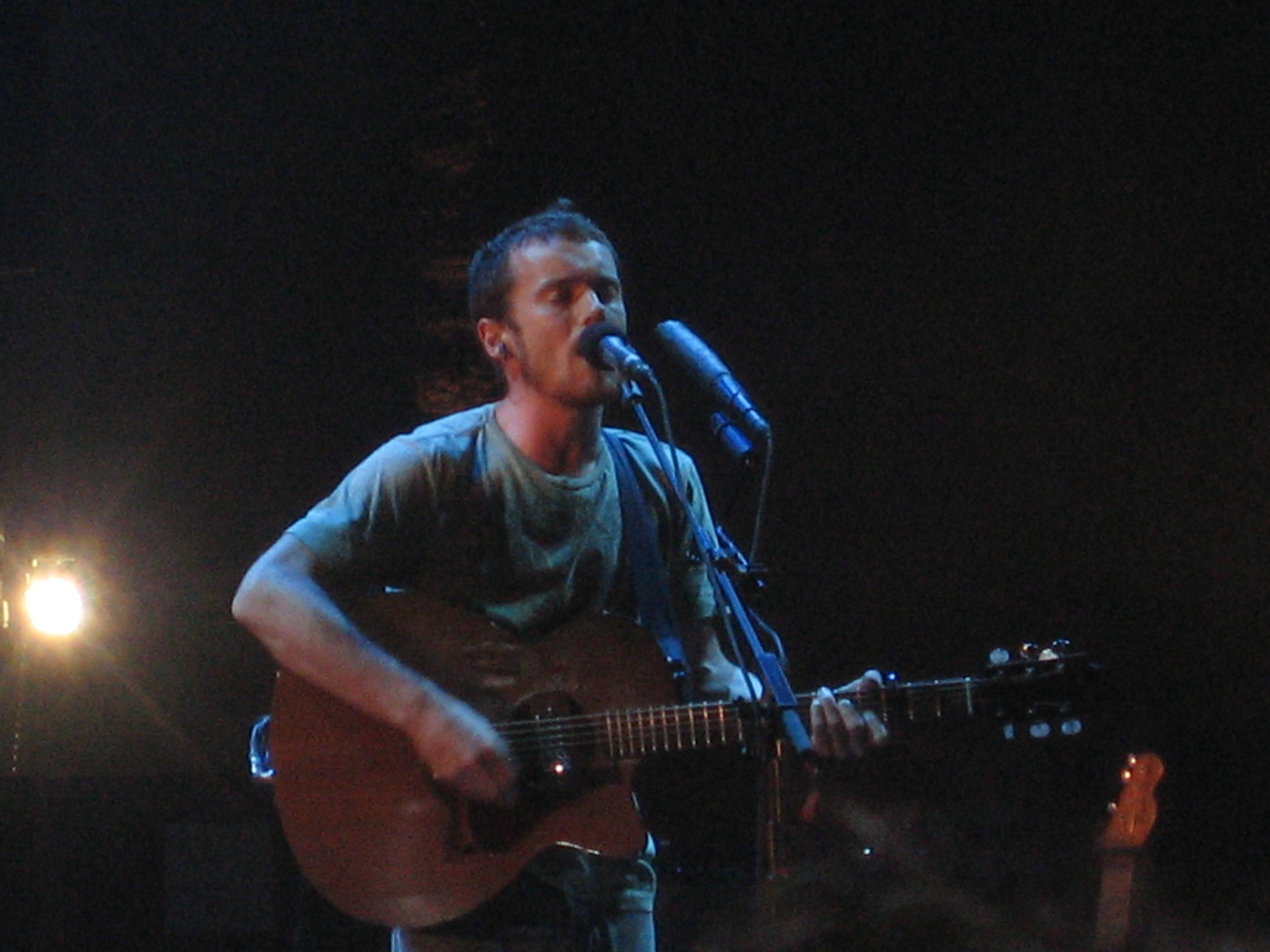 Damien Rice at the Coachella in 2007.